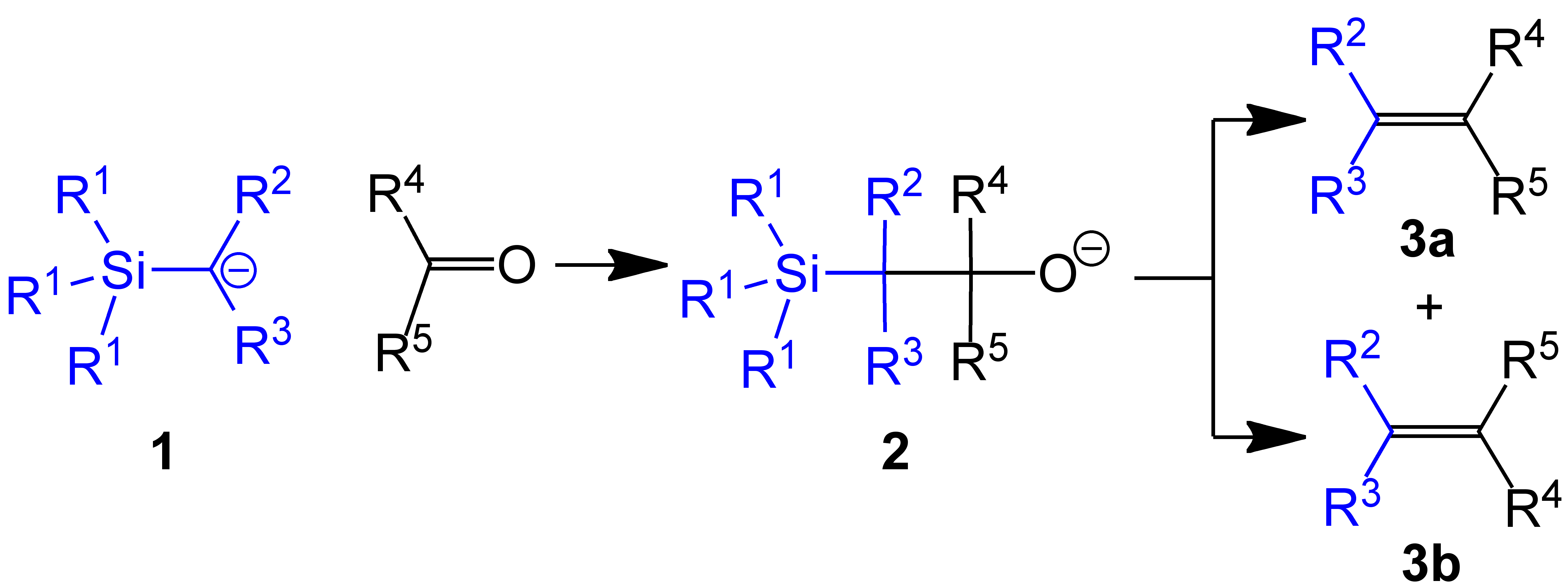 Petersen_Olefination_Scheme